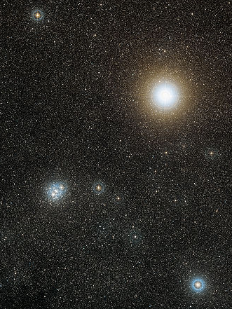 A wide-field image of the region around NGC 4755 constructed from data from the Digitized Sky Survey 2. The bright star is Mimosa, one of the four stars in the Southern Cross. The darkness towards the bottom of the image is part of the Coal Sack, a vast area of obscuring dust easily visible to the unaided eye.